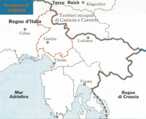 Map of the Italian Province of Gorizia during 1941-1943 (Mappa della Provincia di Gorizia tra il 1941 ed il 1943). All done with my computer software.